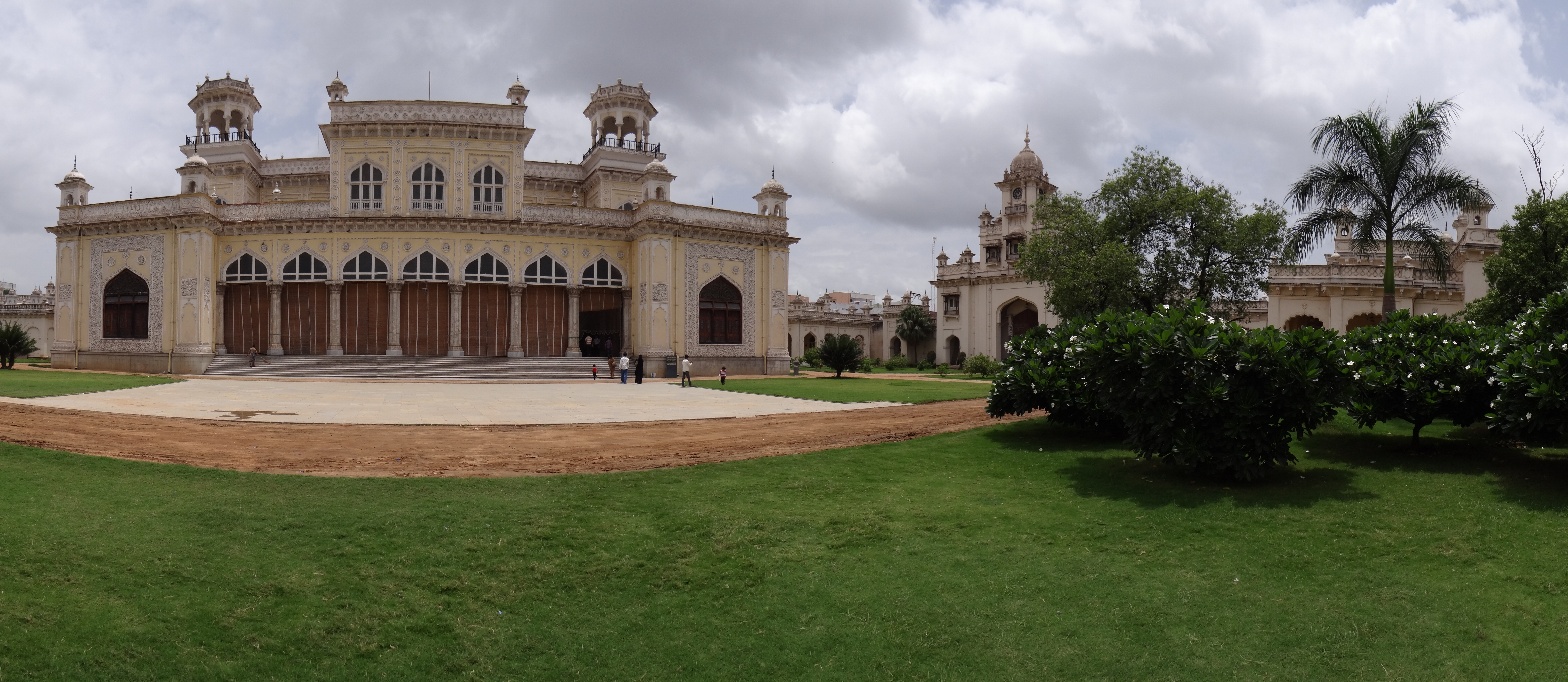 Chowmahalla Palace was a palace belonging to the Nizams of Hyderabad state. It was the seat of the Asaf Jahi dynasty and was the official residence of the Nizam.